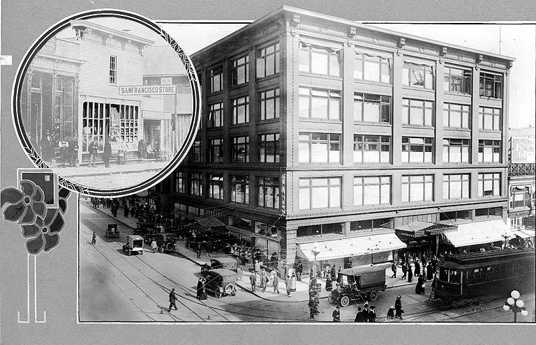 The MacDougall and Southwick Company department store located at southeast corner of 2nd Avenue and Pike Street in downtown Seattle, Washington, built in 1908 and demolished in 1971. An inset in the top left shows the the "San Francisco Store" (Toklas and Singerman, props.) at the west side of 1st Avenue S. between S. Washington Street and S. Main Street, ca. 1878.